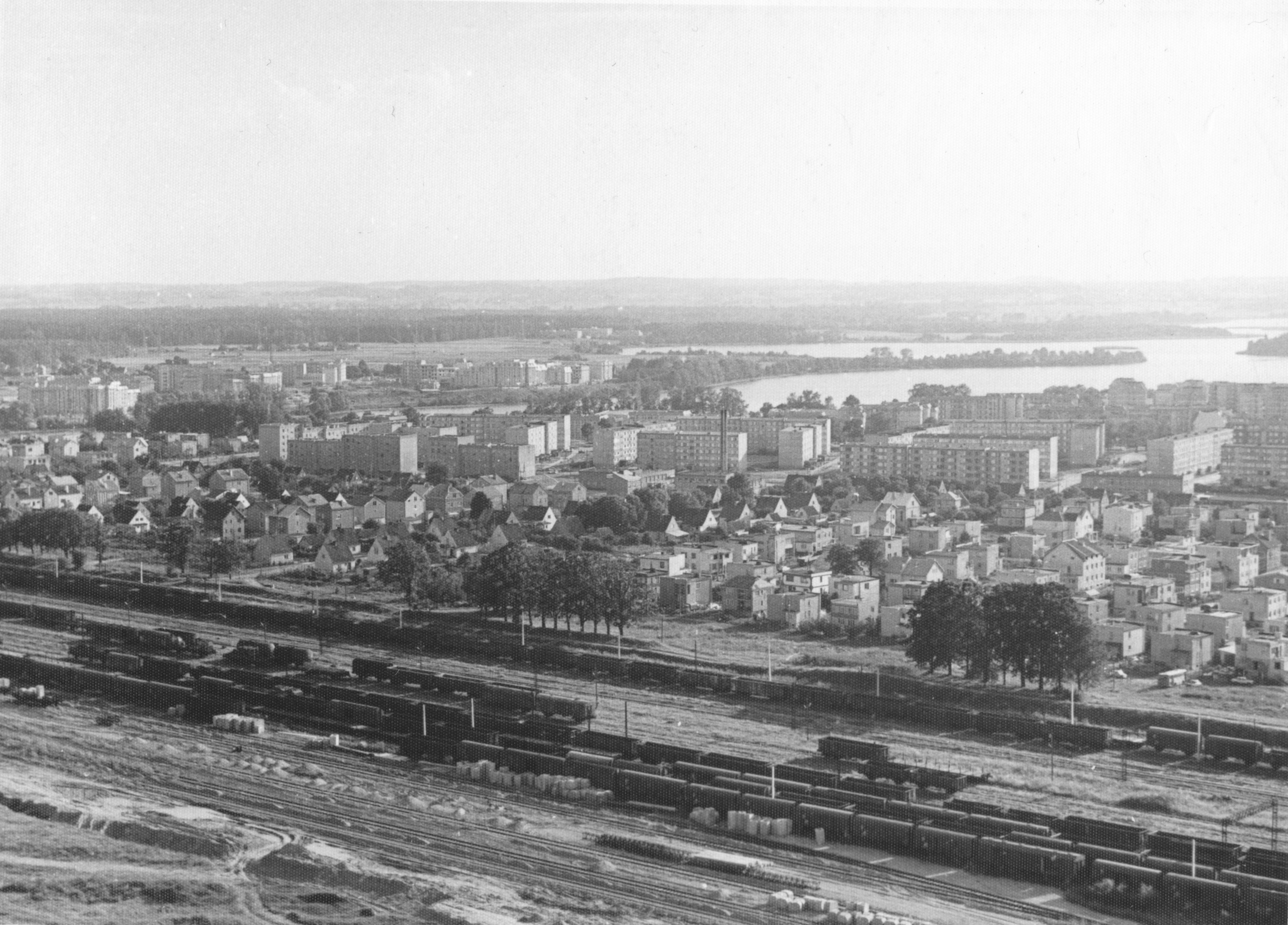 Ełk - - summer 1989 (scan of the original photo, digitaly improved contrast and brightnes)